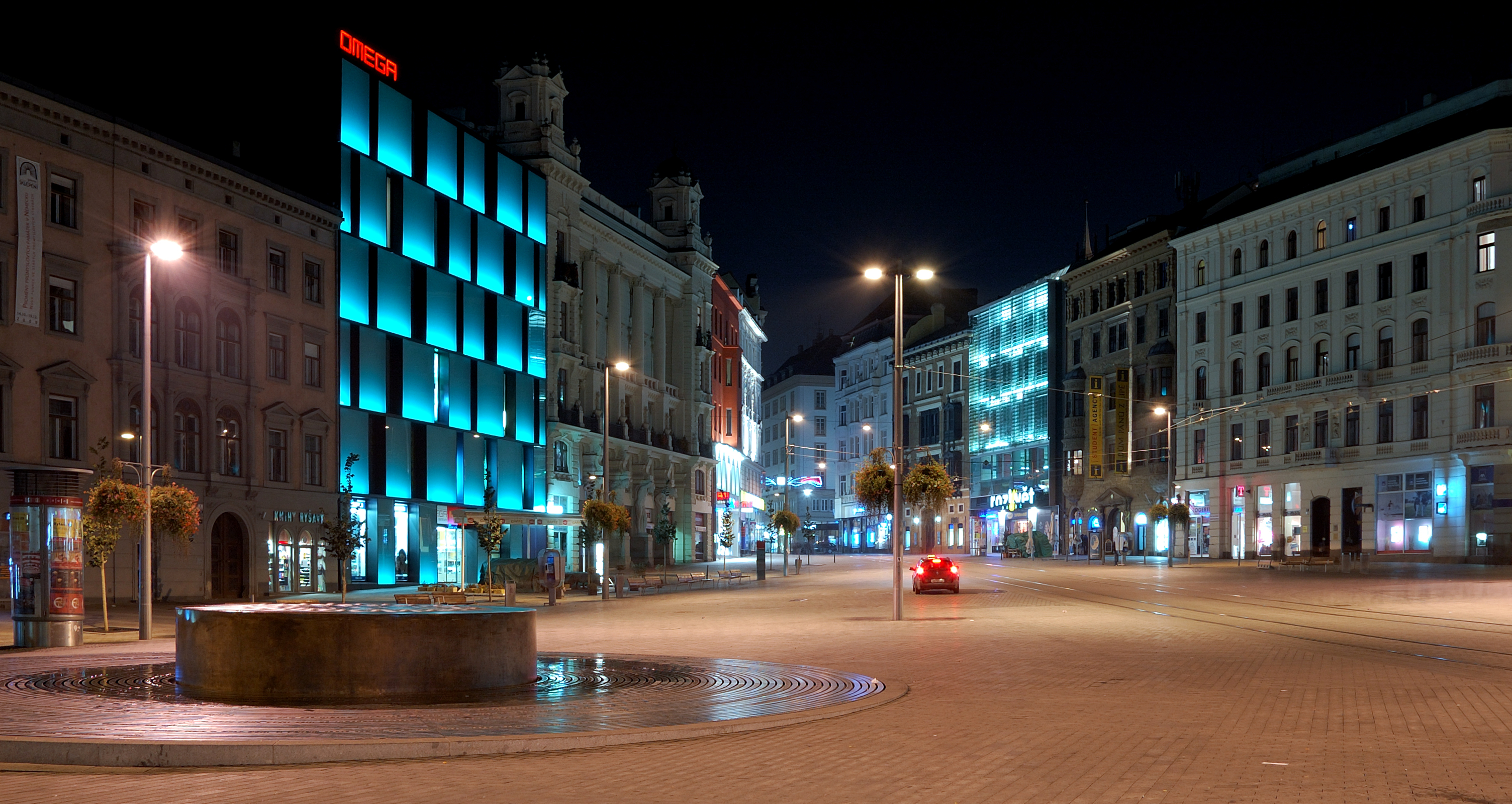 Liberty Square in Brno in the night.